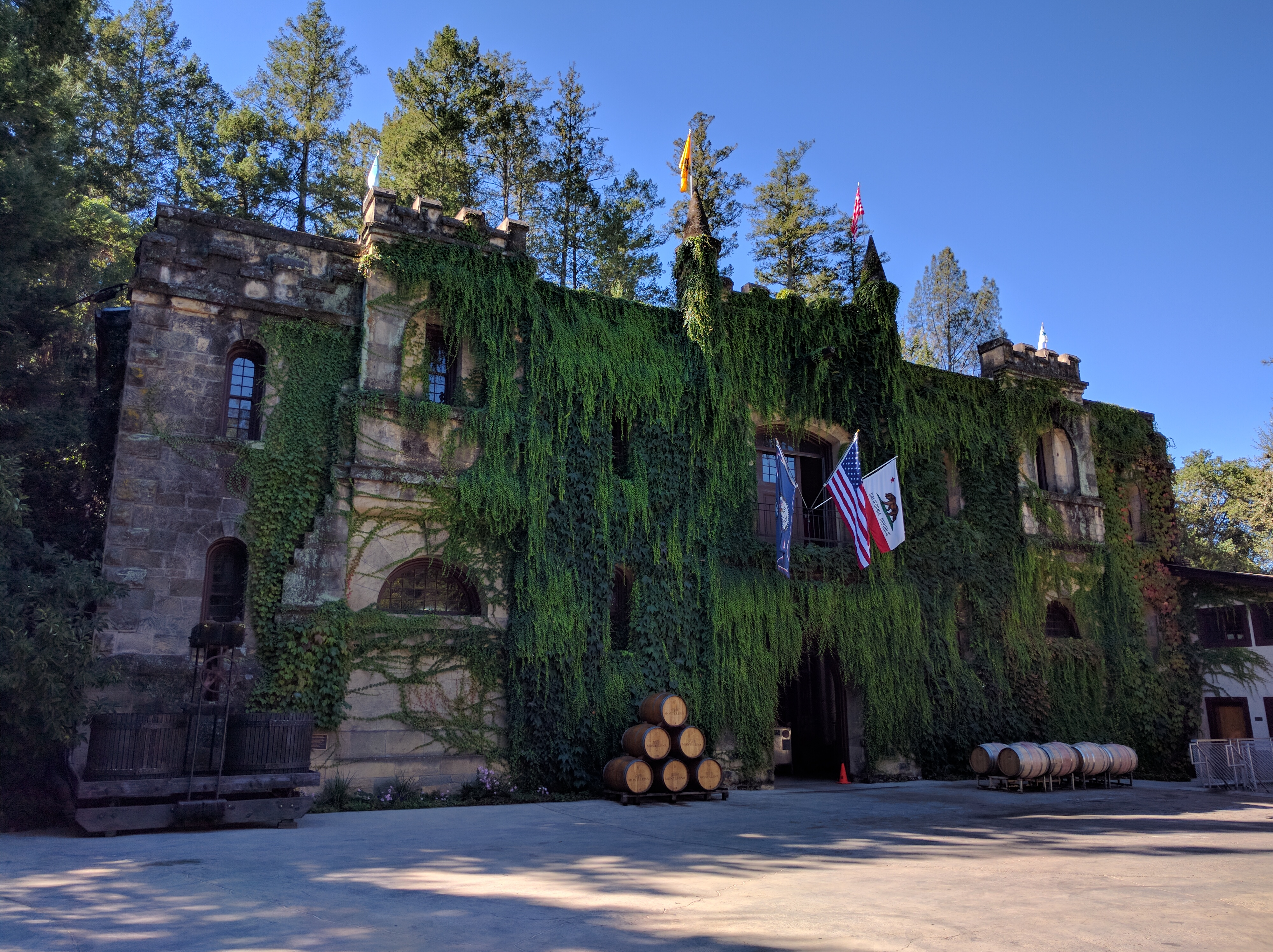 The front of the Chateau Montelena Winery, formerly the Alfred L. Tubbs Winery, at 1429 Tubbs Lane in Calistoga, California.